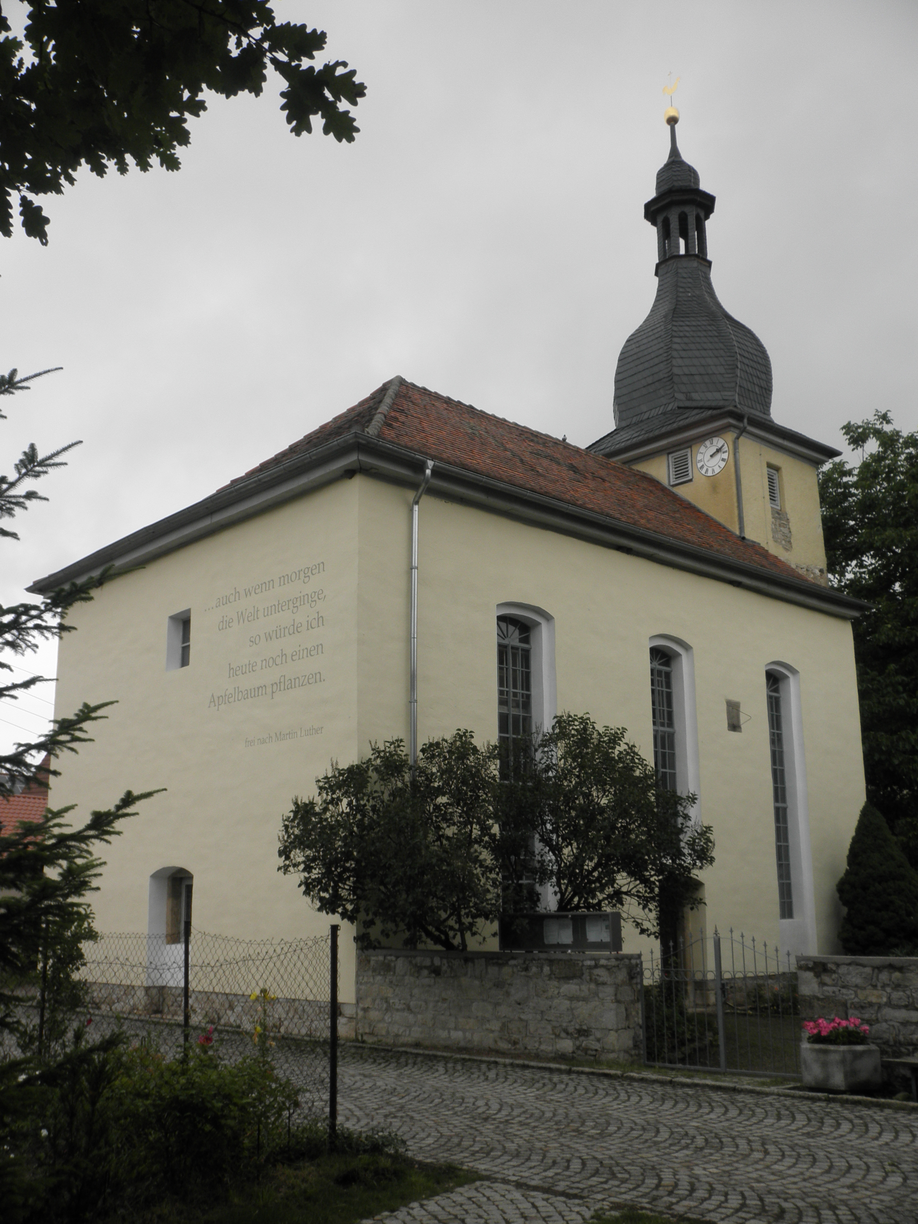 Church in Süßenborn (Weimar) in Thuringia